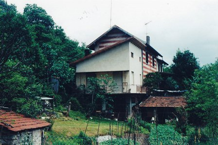 San Maurizio d’Opaglio railway station